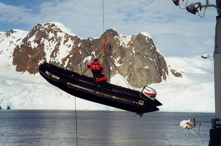 Hoisting a Zodiac onto the Hanseatic in Antarctica